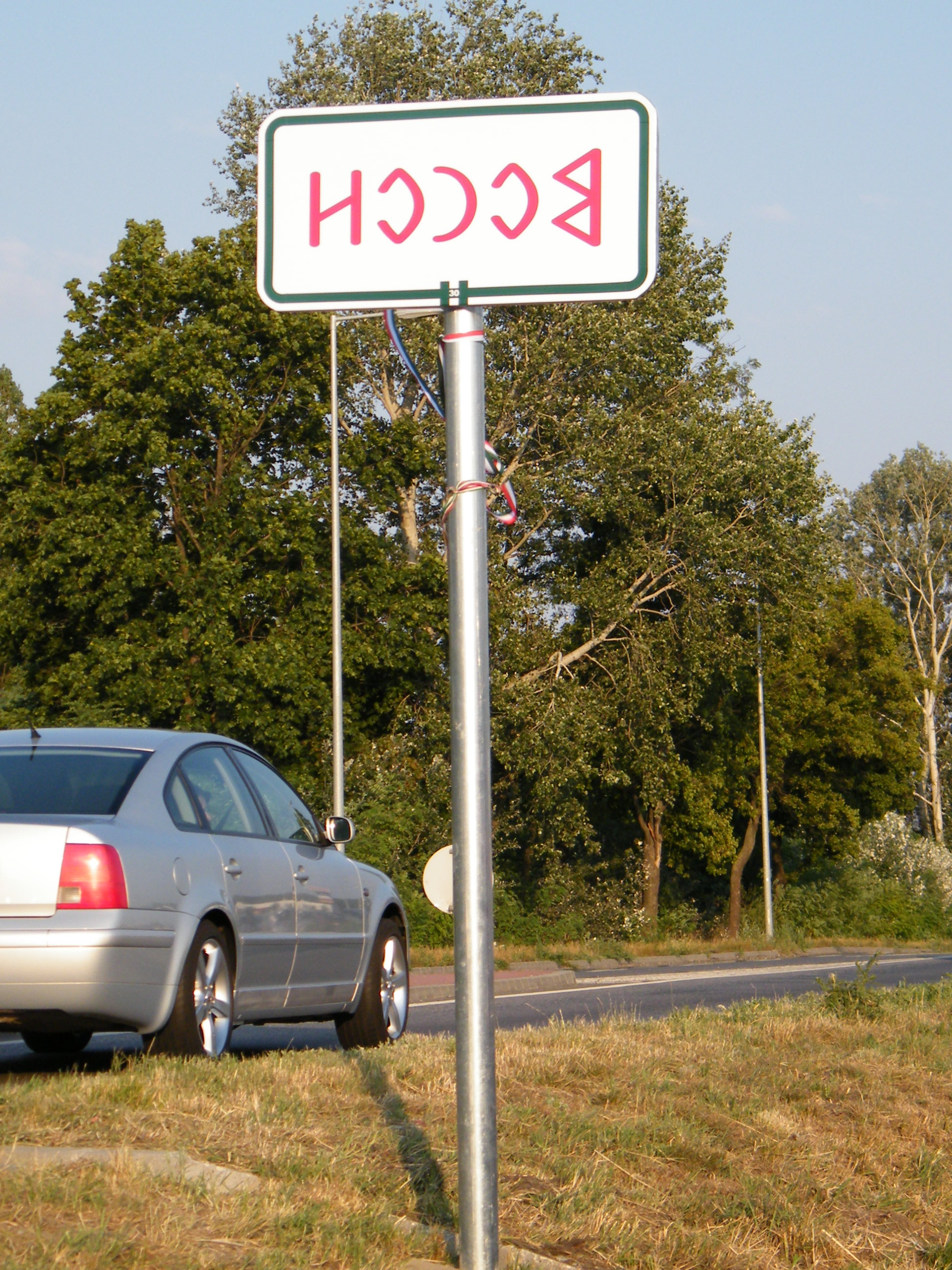 City limit table in Monor, Hungary. Traditional Hungarian letters (rovas)